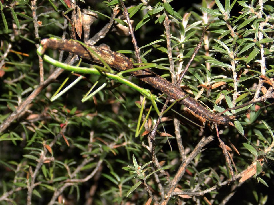 A mating pair of Clitarchus tepaki from Spirits Bay